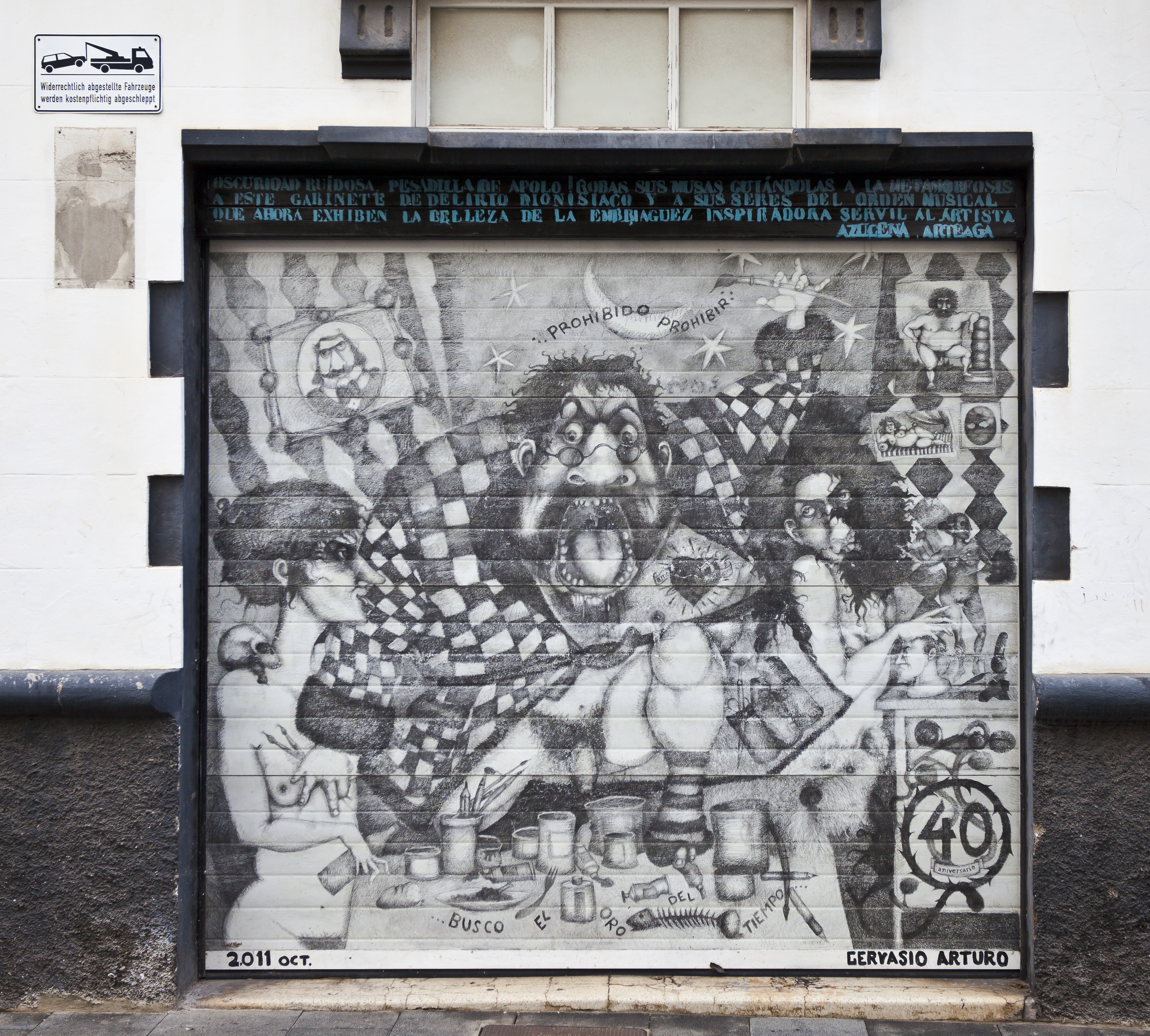 Graffiti in the street Obispo Rey Redondo, San Cristóbal de La Laguna, Tenerife, Spain